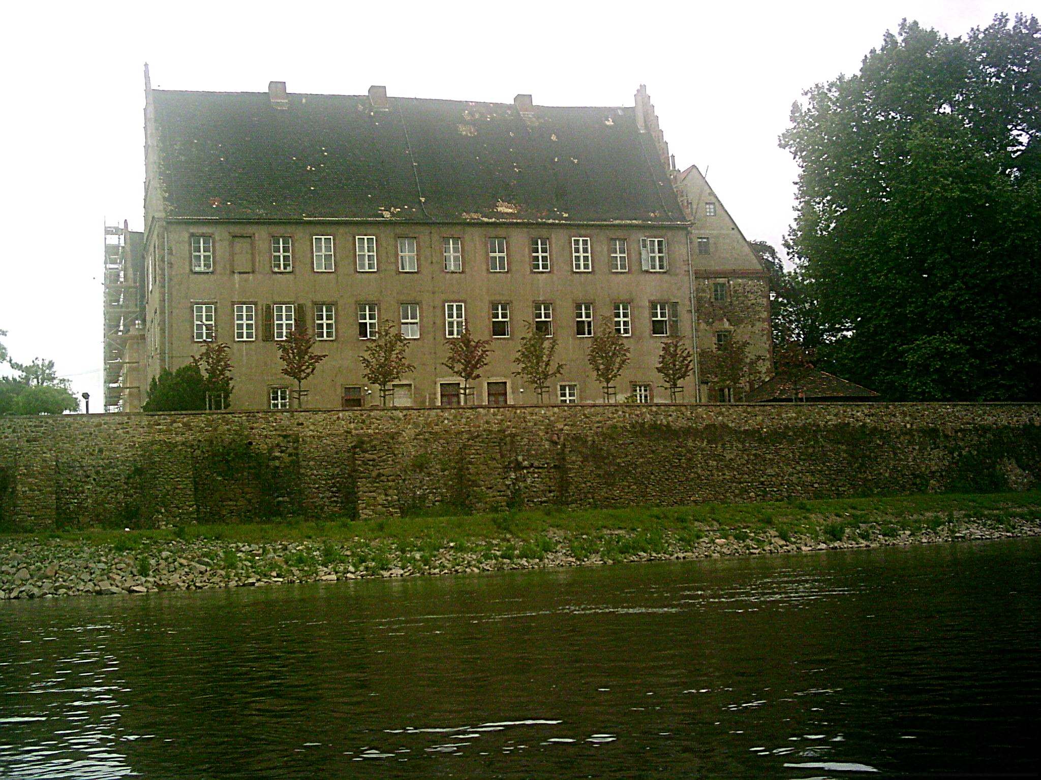 The castle Trebsen (Trebsen) on river Mulde